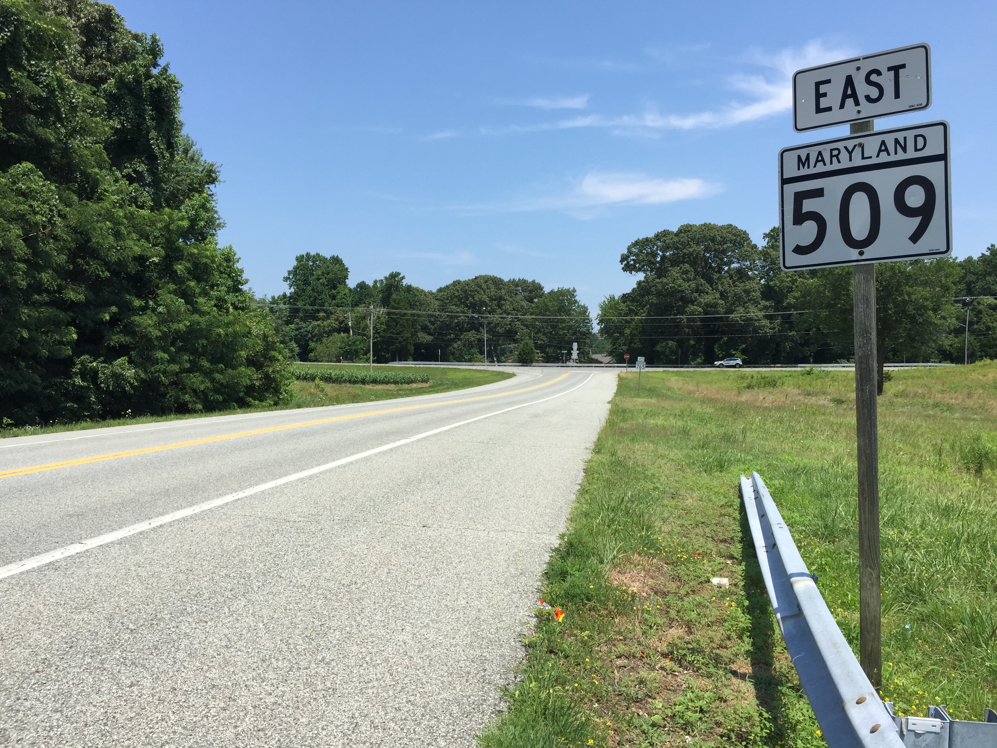 View east along Maryland State Route 509 (Governor Run Road) just east of Maryland State Route 2 and Maryland State Route 4 (Solomons Island Road) in Port Republic, Calvert County, Maryland